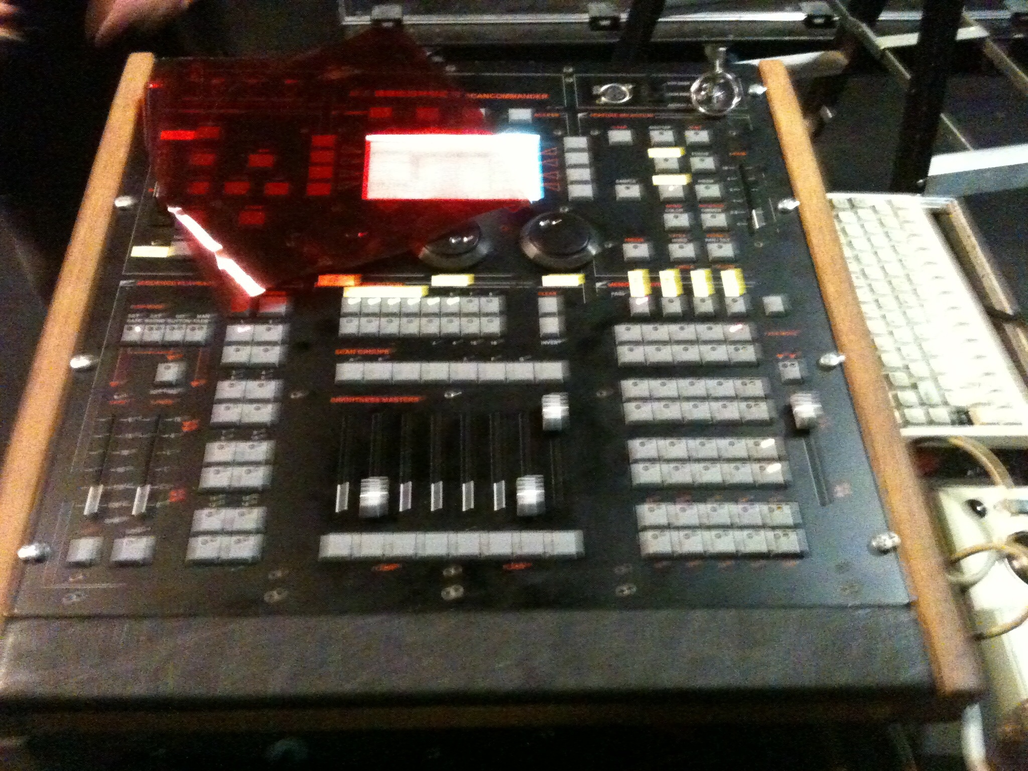 MA lighting desk type Scancommander